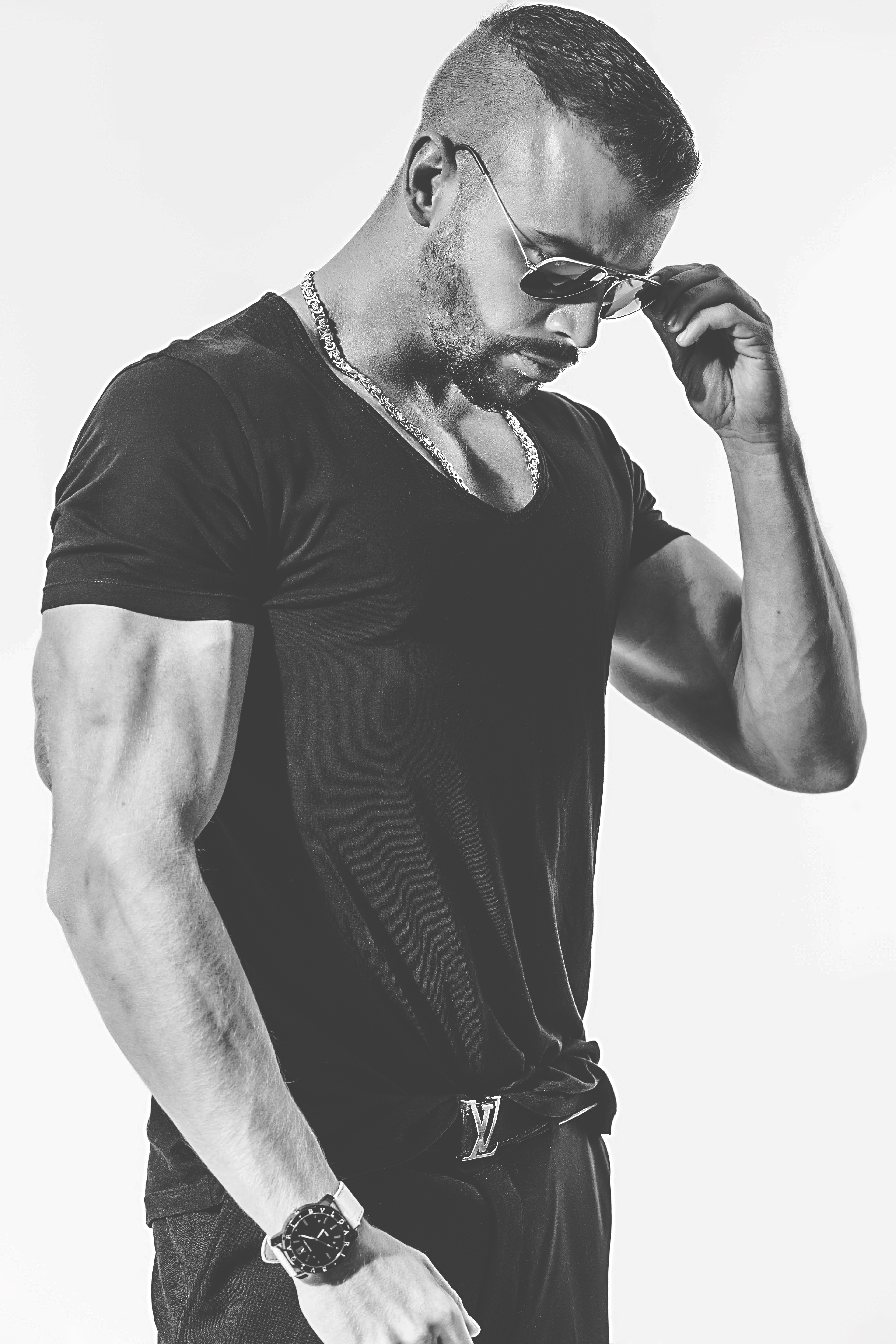 Pressefoto Kollegah (2014)